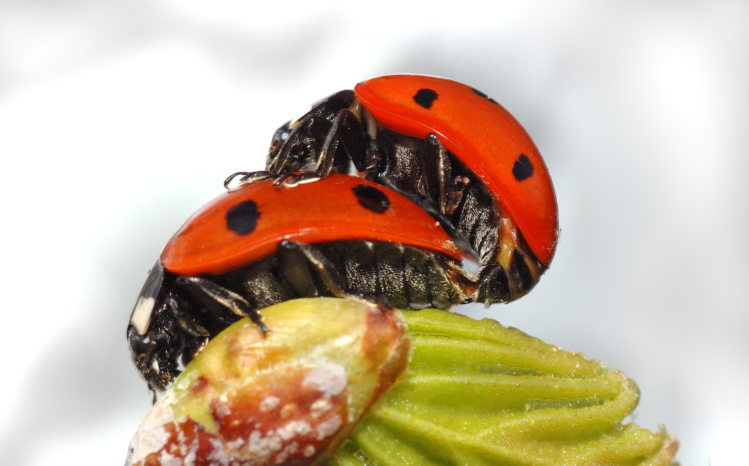 This image shows a Sevenspotted Lady Beetle (Coccinella septempunctata) mating on a young Birch leaf. This image has been used on the cover of the book "Bonk" by Mary Roach.